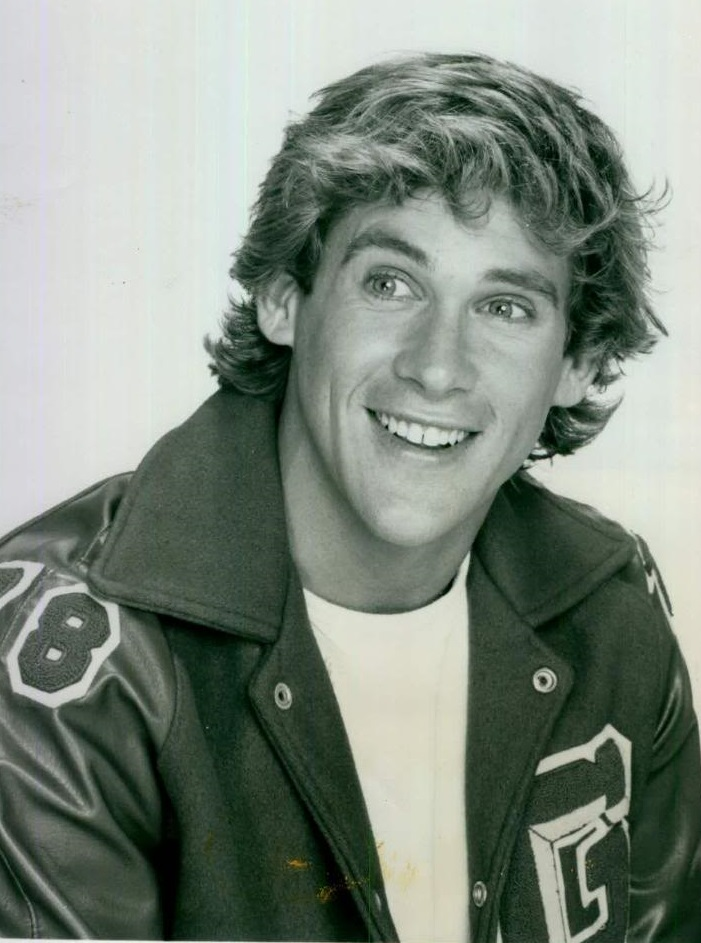 press photo of Michael Dudikoff on Star of the Family in 1982